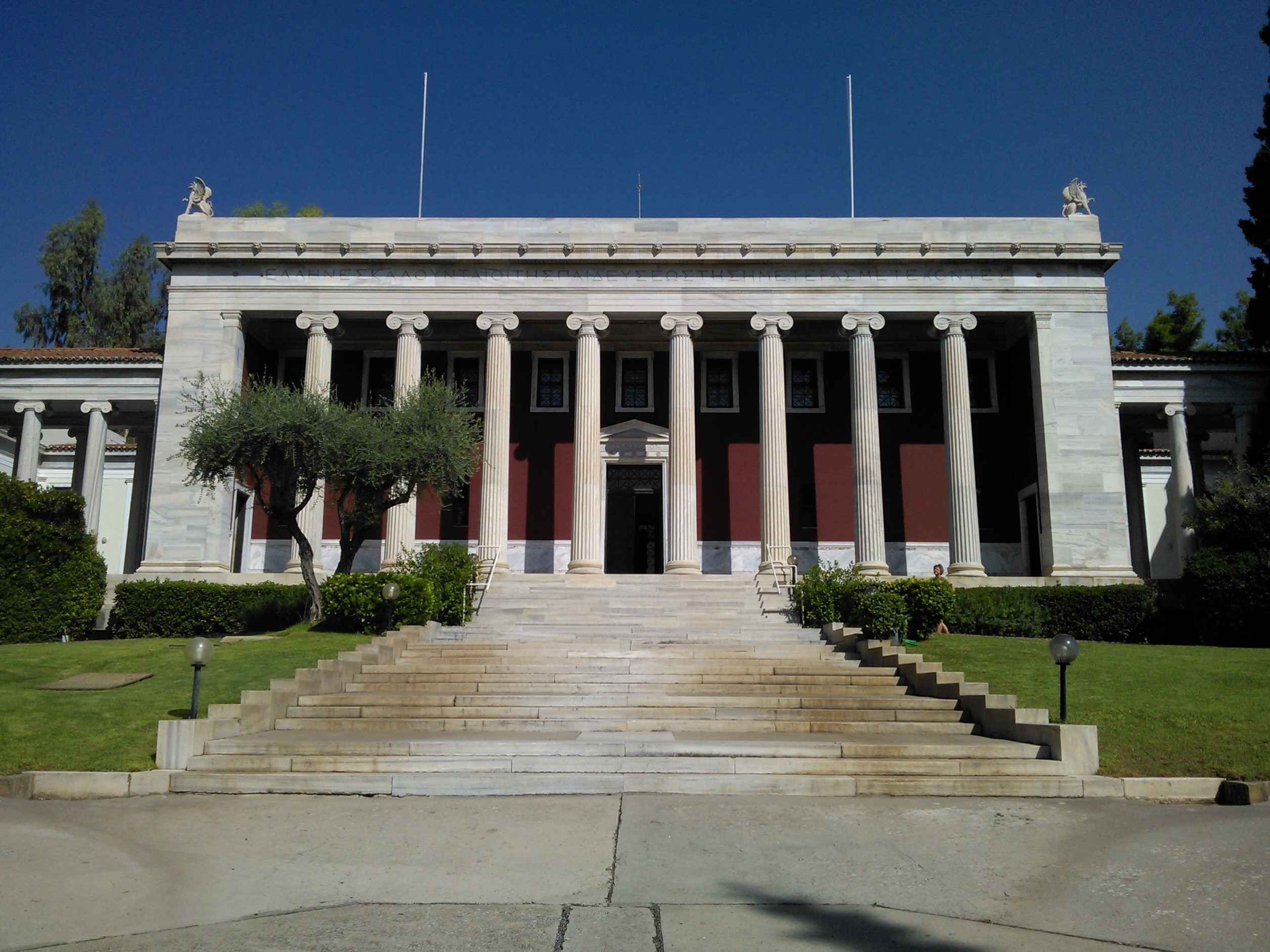 Gennadius Library in Athens (September 2014)